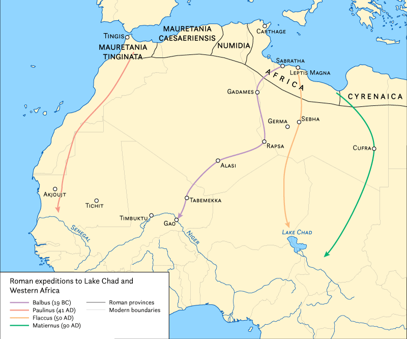 Map showing the Roman expeditions south of the Sahara desert in western Africa